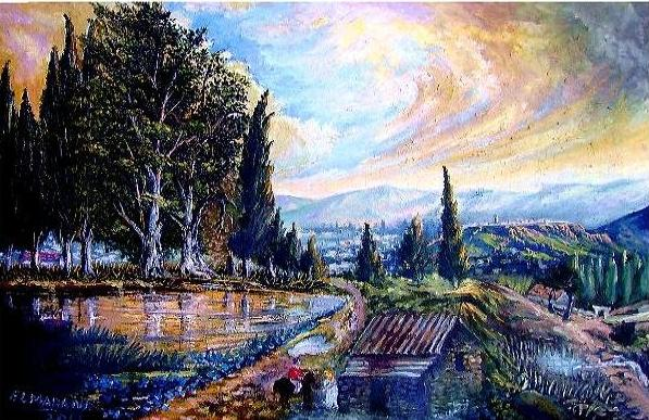 Taza Old Medina Oil on canvas 70x50cm 2012 signed Elmadani